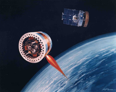 ASAT projectile approaching target satellite SolWind (artist impression)